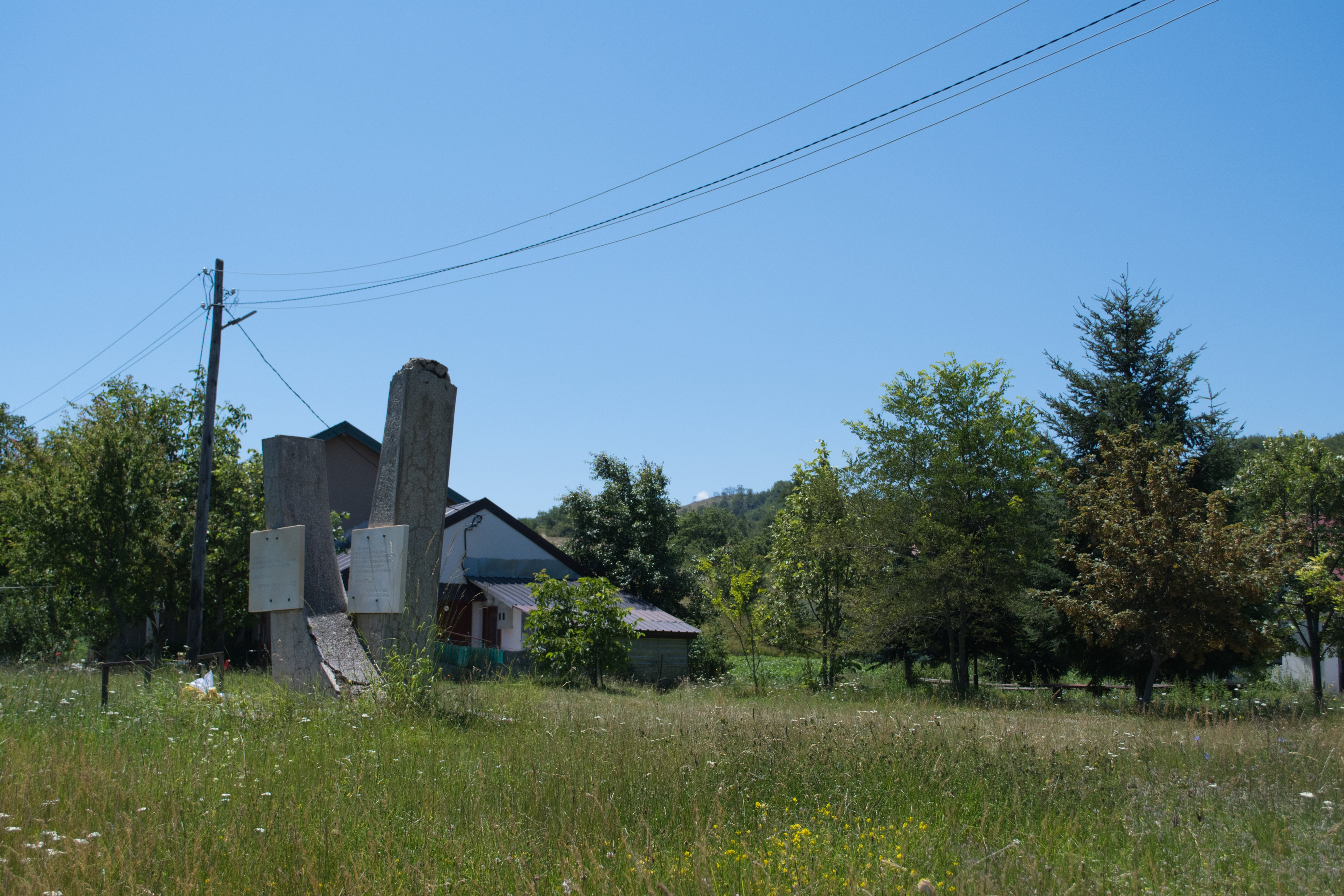 Monument in the village of Lokov